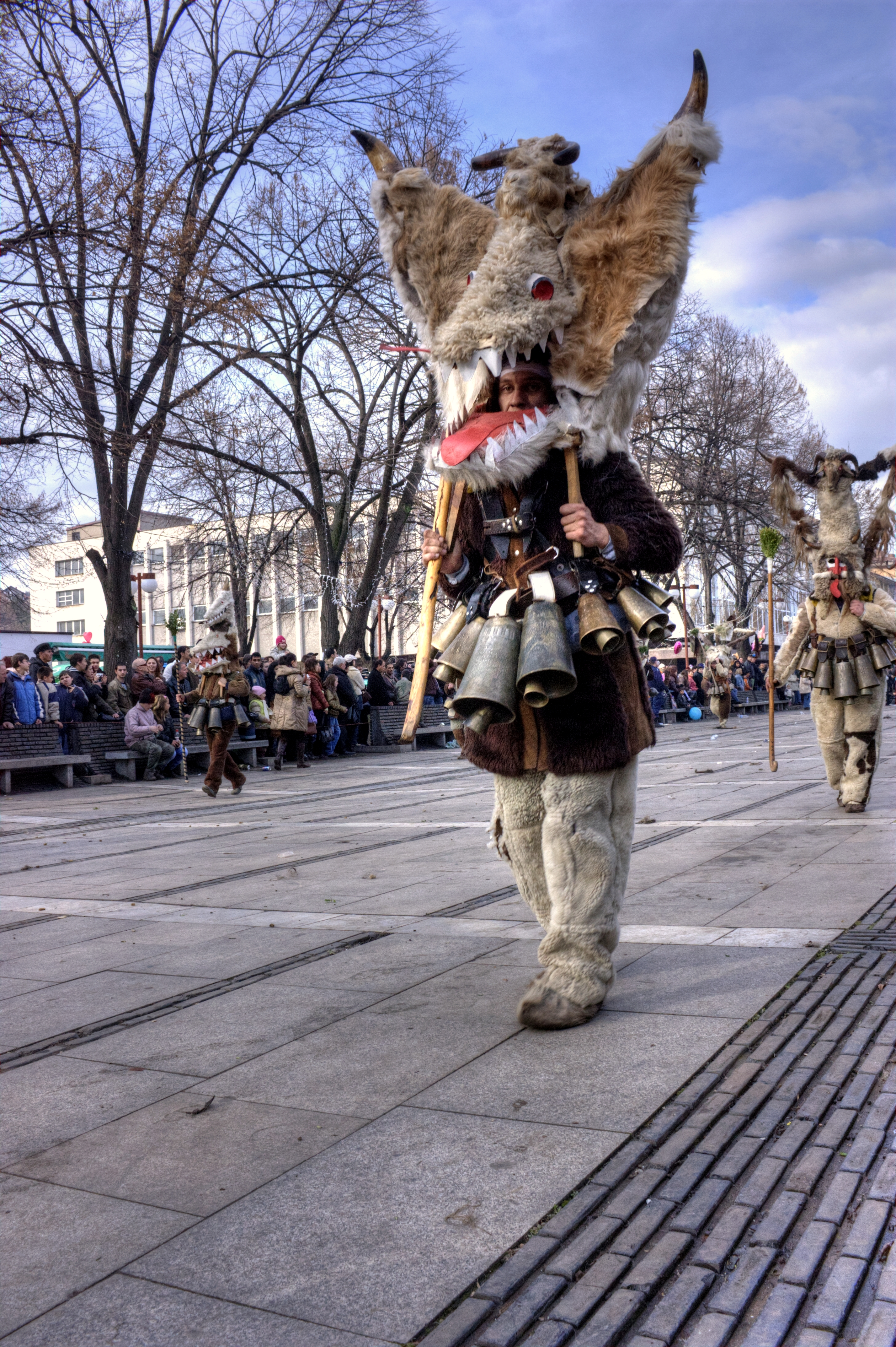 The traditional Kukeri celebrations at the Bulgarian town Pernik... "Сурва" 2009 - Перник